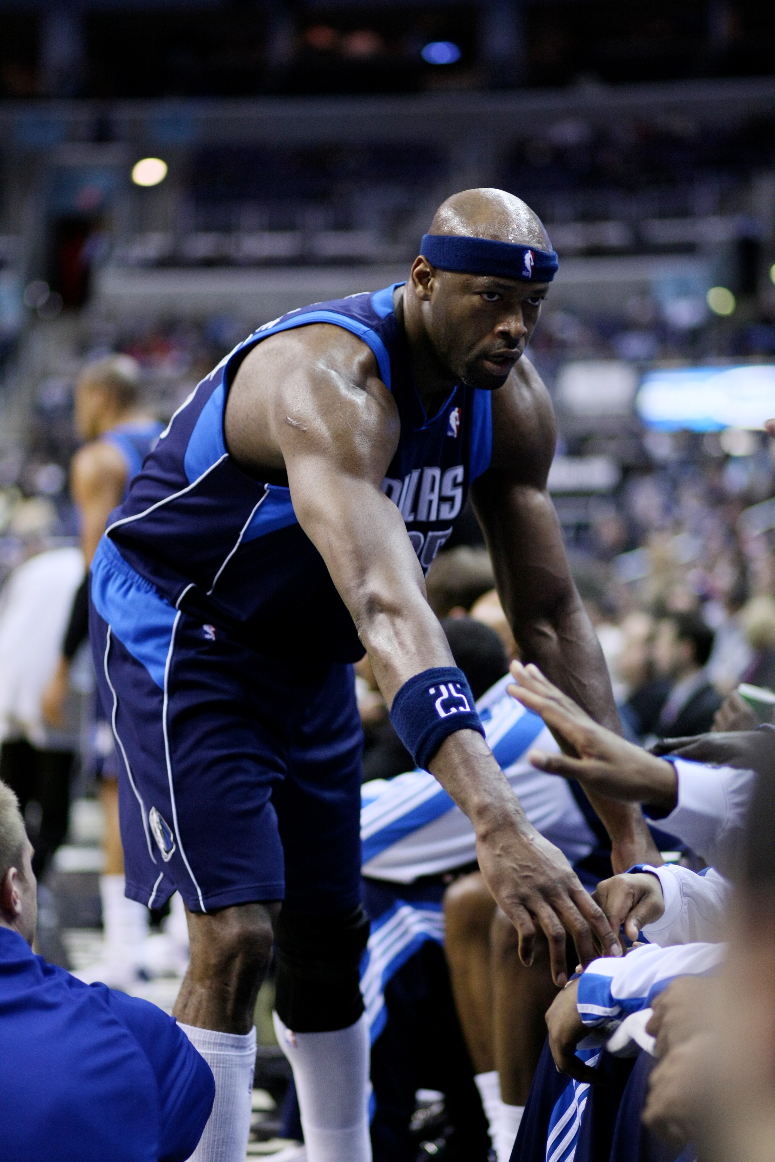 Erick Dampier